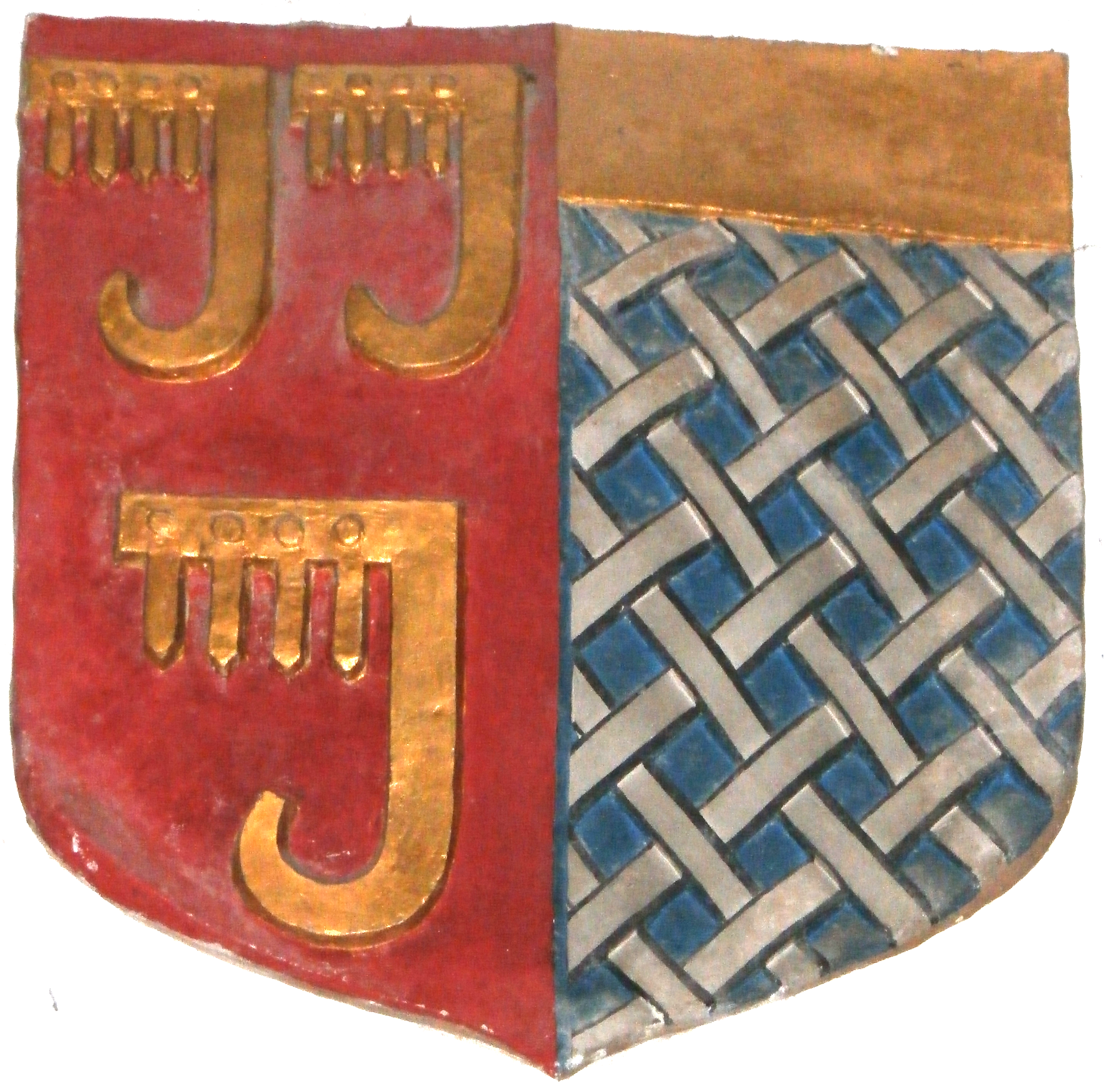 Arms of Richard VIII Grenville (1542-1591) of Stowe, Kilkhampton, Cornwall and Bideford, Devon (Gules, three clarions or) impaling St Leger (Azure fretty argent, a chief or), arms of his wife Mary St Leger. Kilkhampton Church.